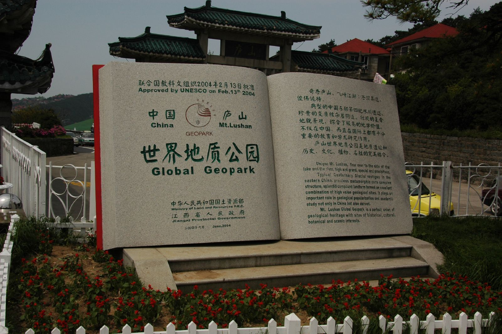 Stone book at Mount Lu